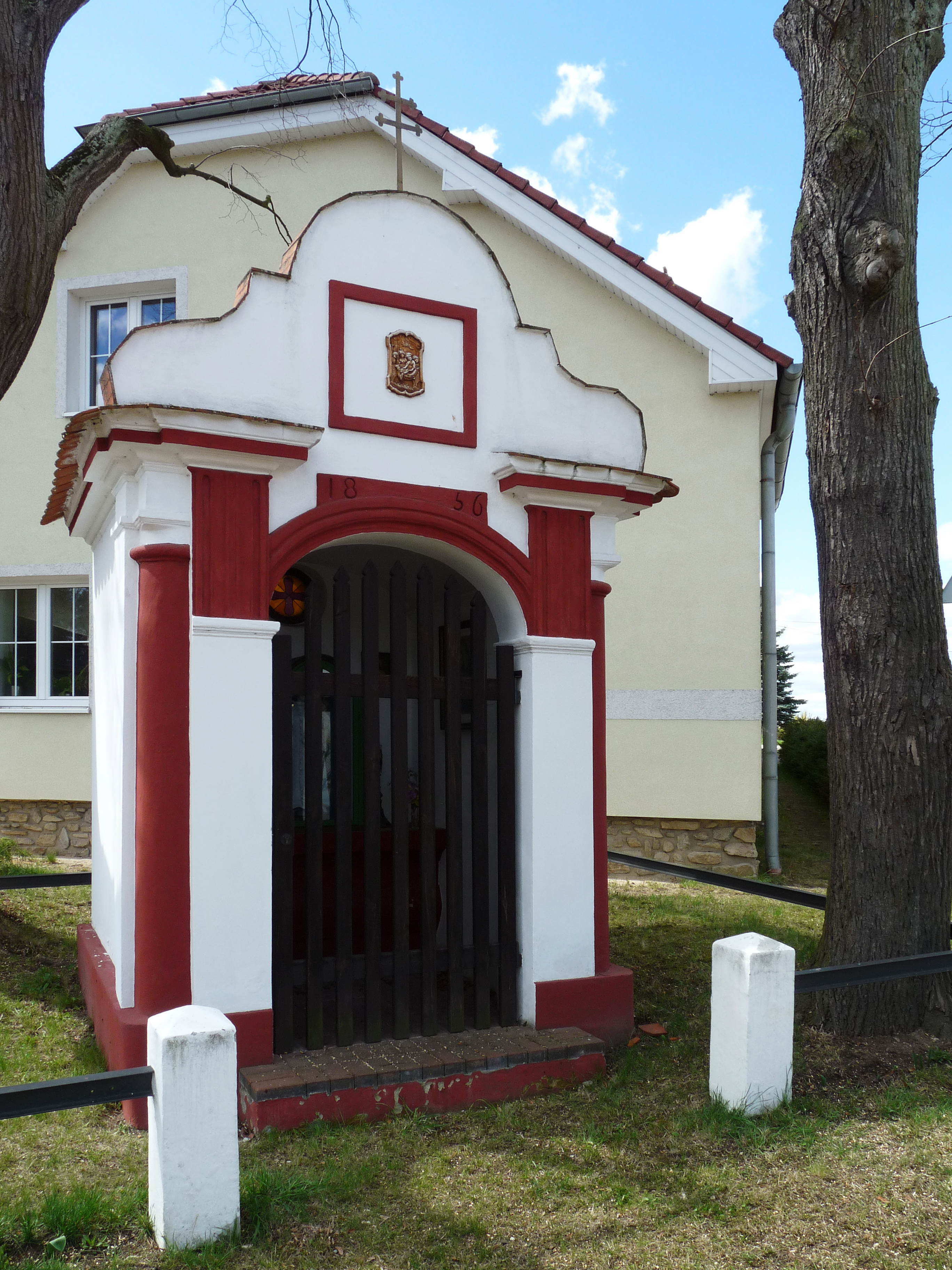 Chapel in Branišov, České Budějovice, Czech Republic.